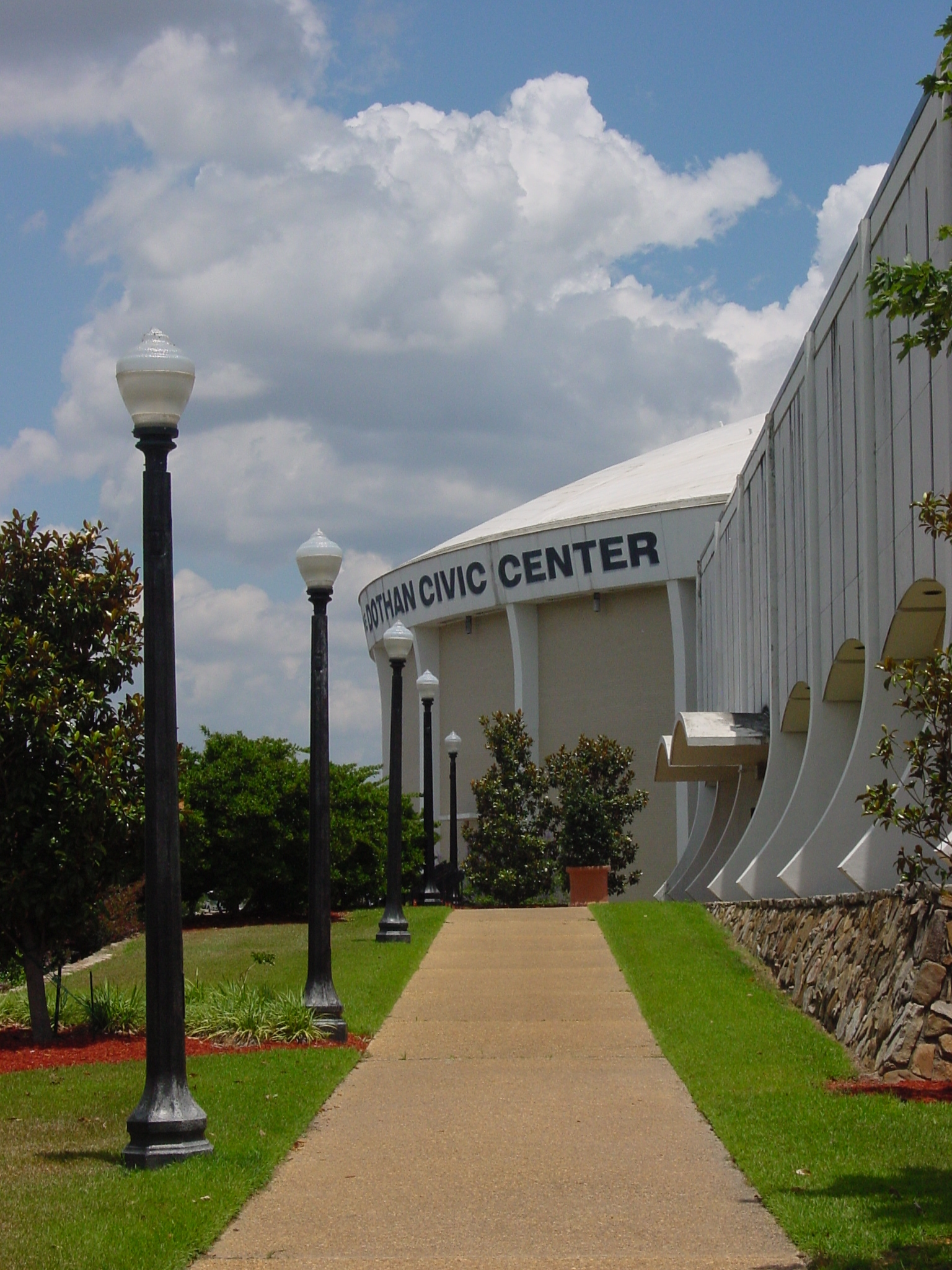 This photograph is of the Dothan Civic Center in Dothan, Alabama.